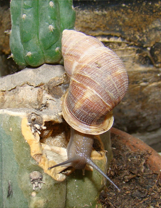 Photo of Scutalus mariopenai.